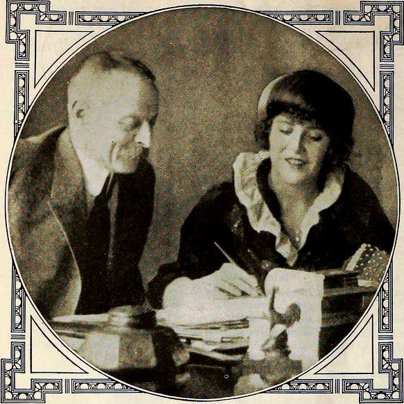 Charles Pathé and Ruth Roland, at the signing of her contract with Pathé, on page 36 of the August 1919 Film Fun.